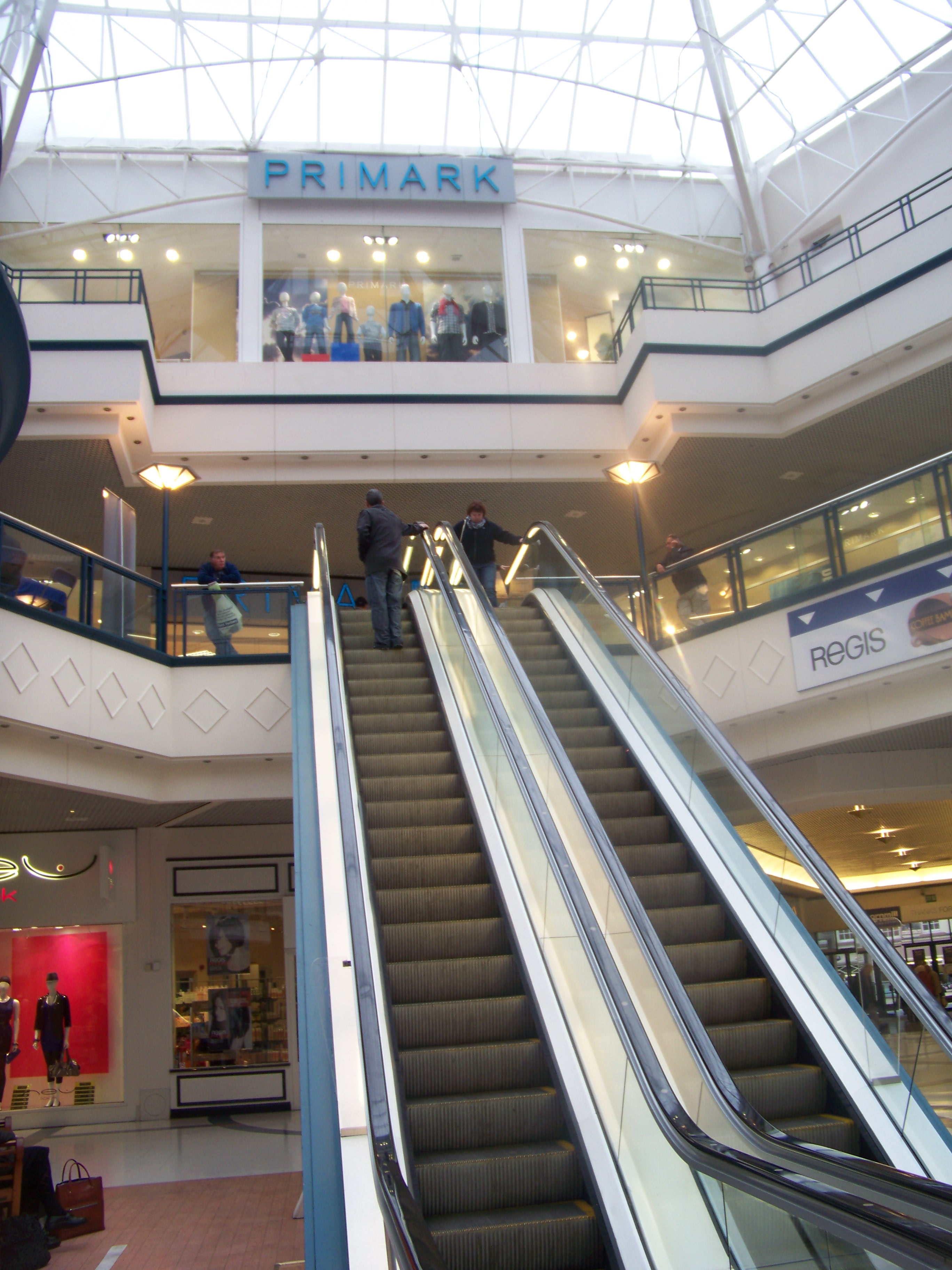 Primark in the Cornmill Centre, Darlington. Taken on a Monday in October 2009.